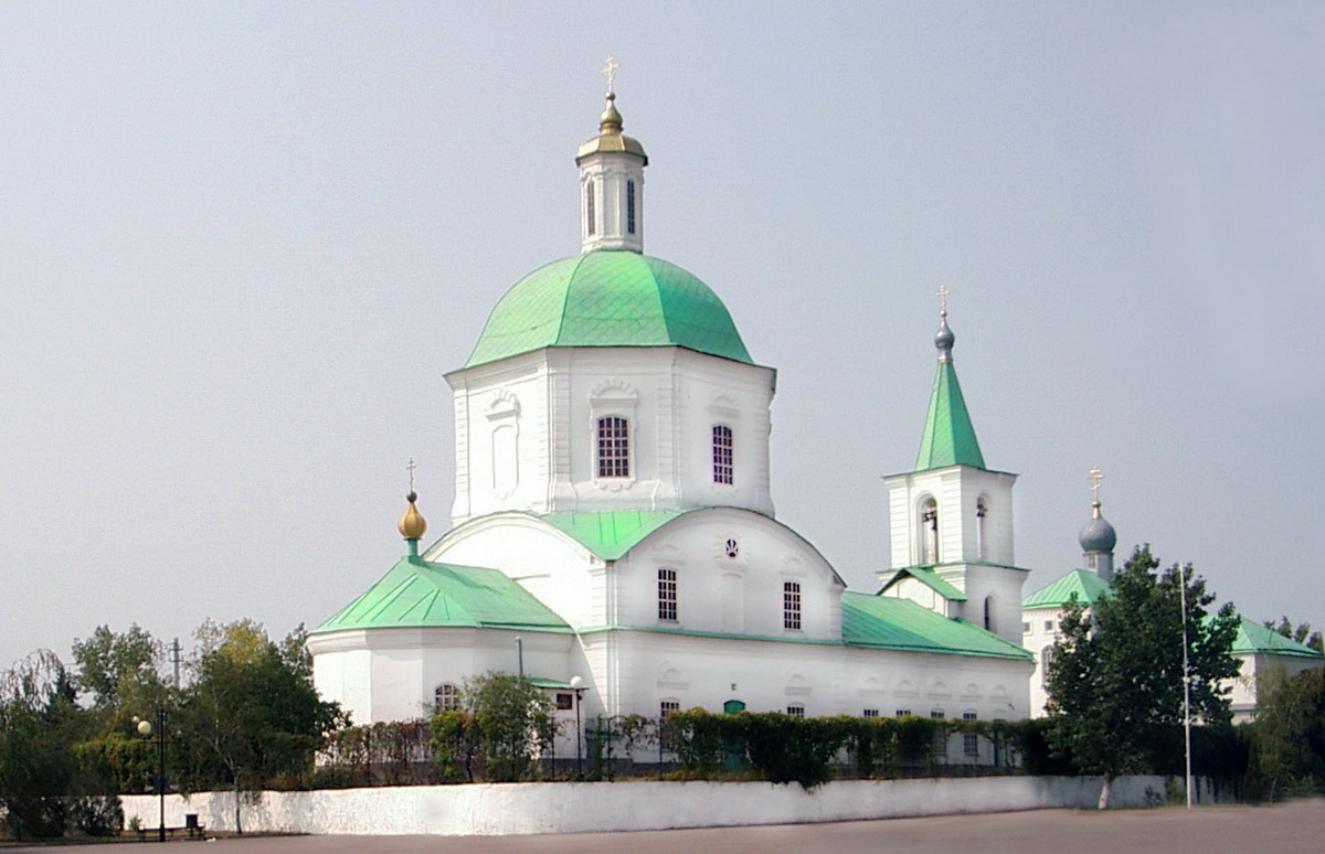 The Holy Archangel Michael's parish of stanitsa Vyoshenskaya exists from the middle of XVIII century. In 1937 year the parish was closed, and the Church building was used as a granary. In this period the Church tried to blow up, but, thanks to the M.A. Sholokhov, remained цел.Во the Second world war the Church was severely damaged and lost the altar and the bell tower. Church opened in 1946, and since 1991, the restoration of the temple.